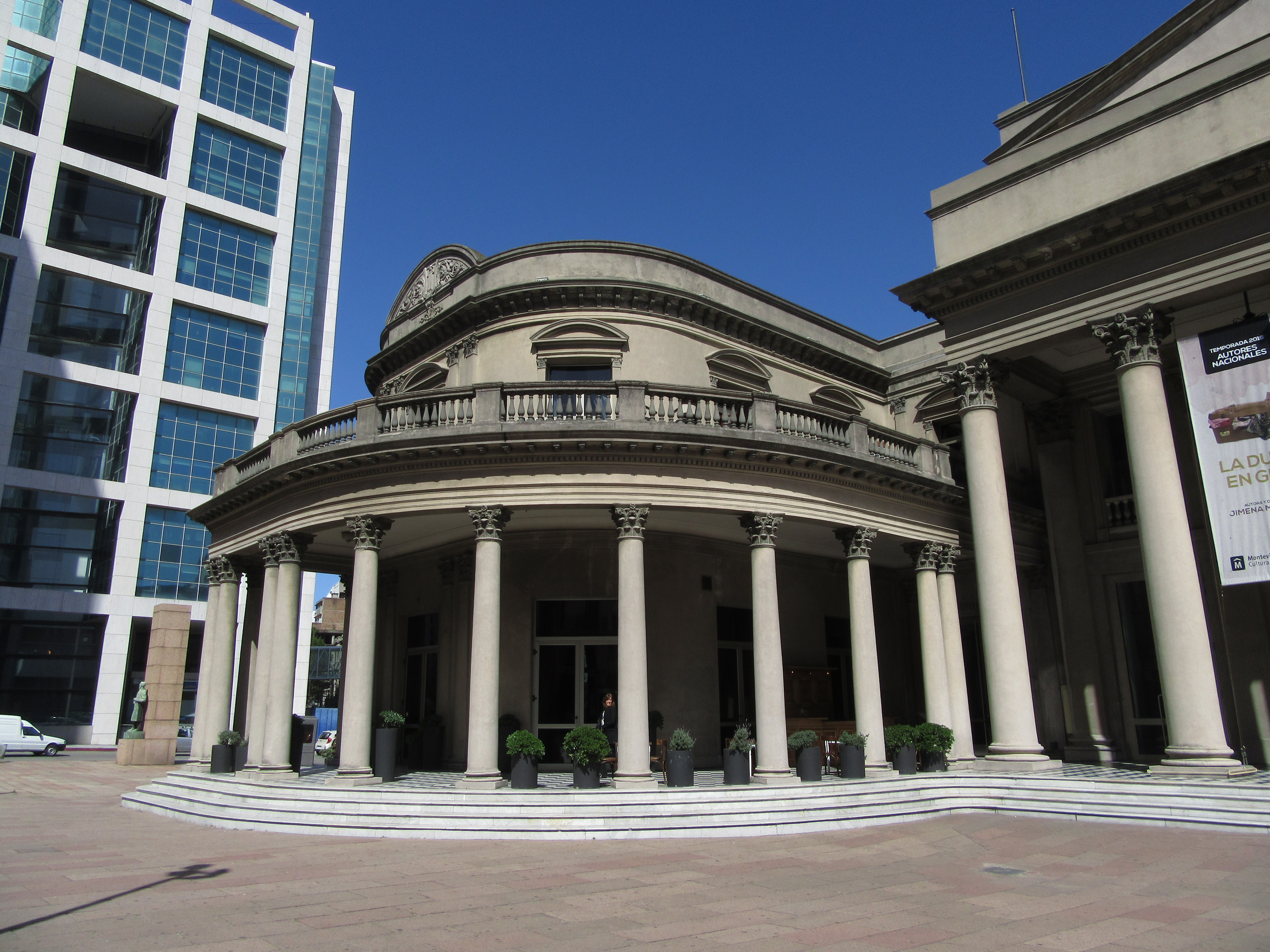 Montevideo